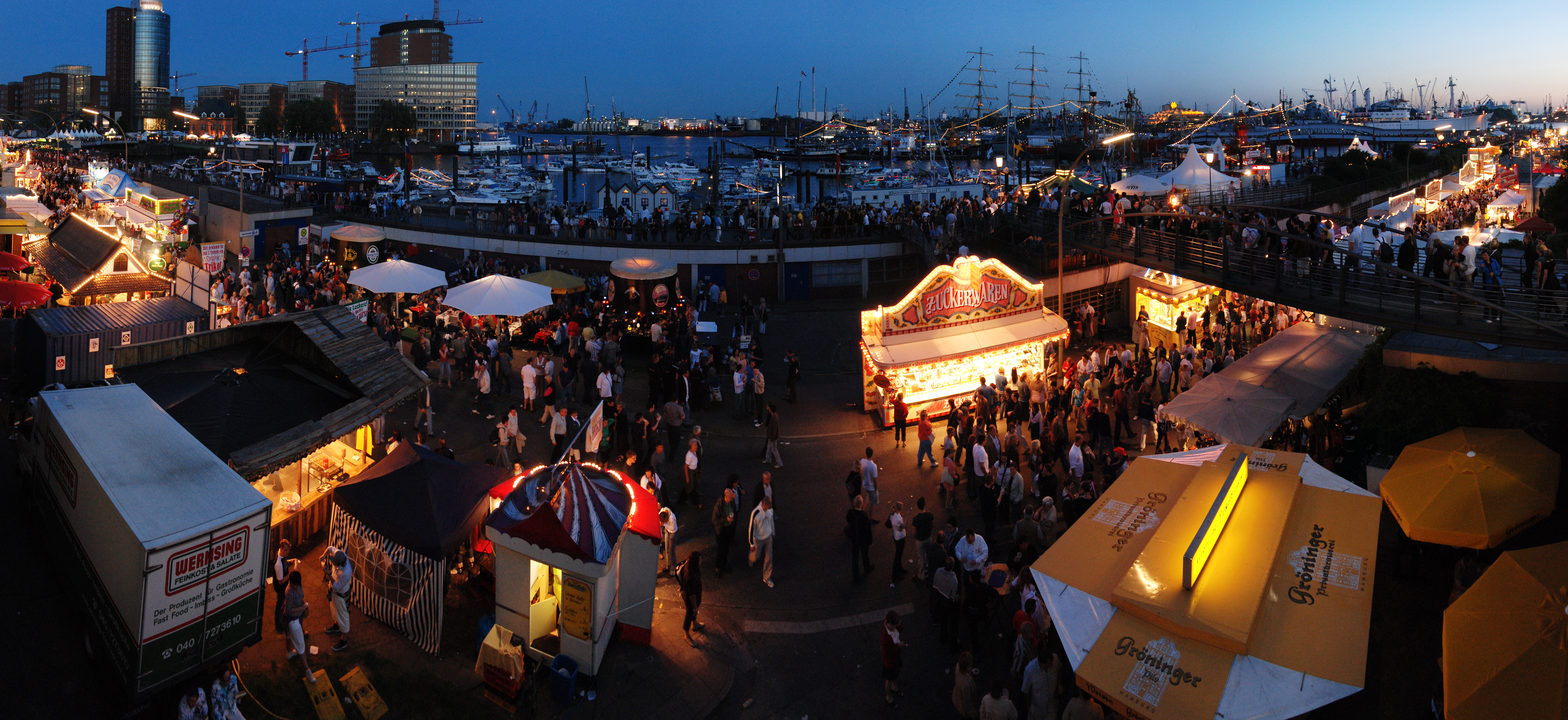 The annual Hafengeburtstag ("harbour's birthday") celebration in Hamburg, Germany after sunset. The 180º panoram was shot from the Baumwall city railway station. Composed from seven individual shots. Camera data Camera Nikon D80 Lens Nikkor AF-S DX VR 18-200mm 3.5-5.6G IF-ED Focal length 18 mm Aperture f/5.6 Exposure time 1/20 s Sensivity ISO 800